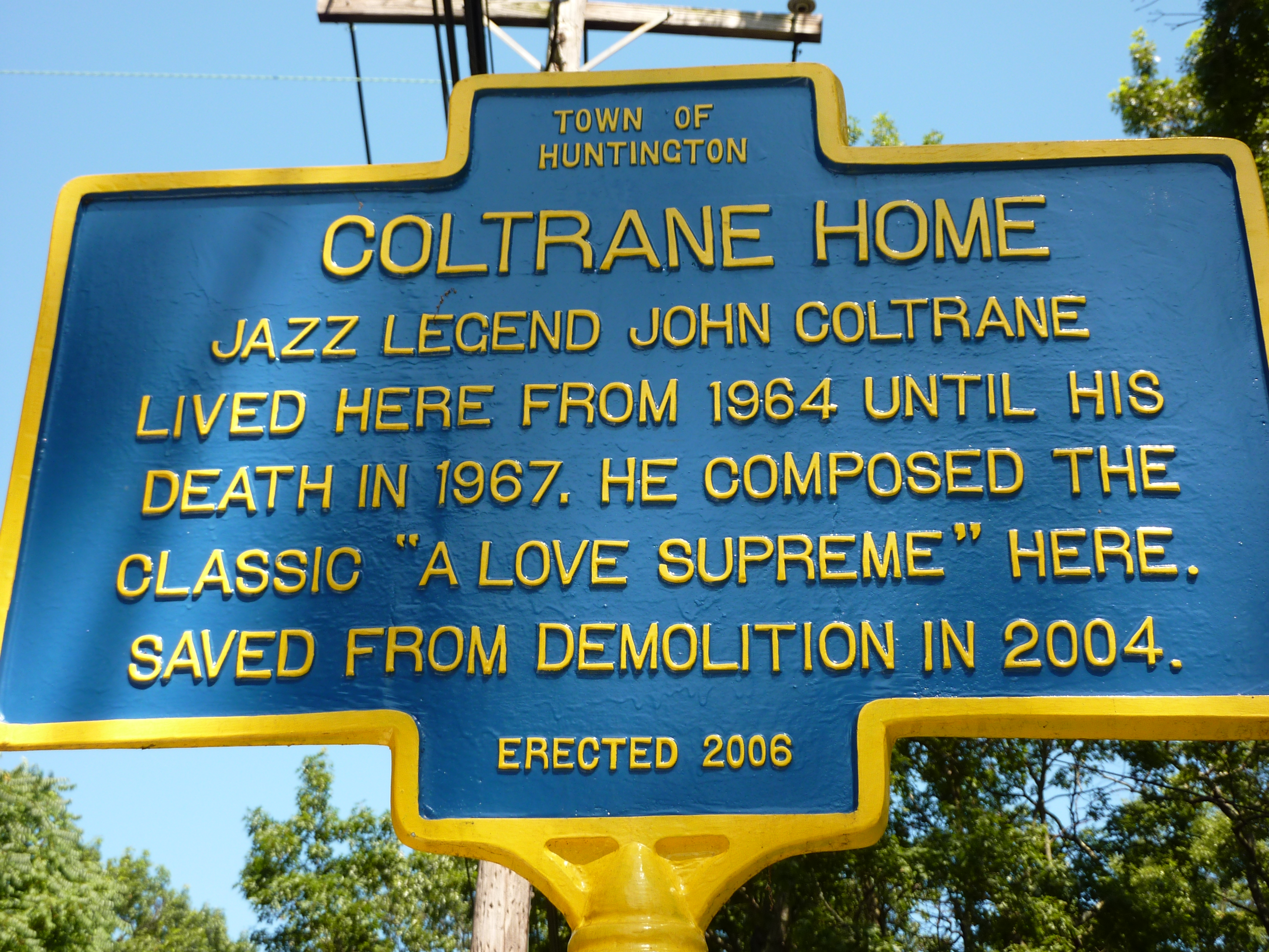 Coltrane House, 247 Candlewood Path Dix Hills